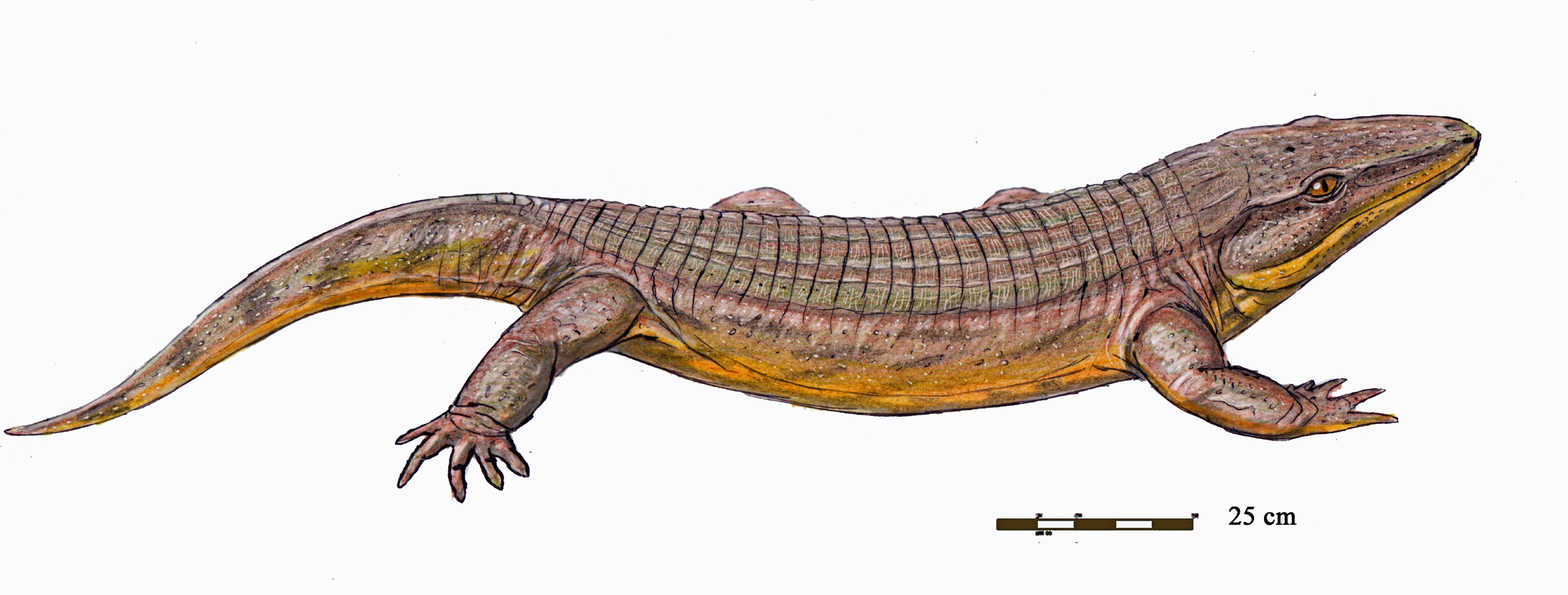 Chroniosuchus paradoxus , chroniosuchian from Late Permian of Russia Chroniosuchus paradoxus, хрониозухид из поздней перми России